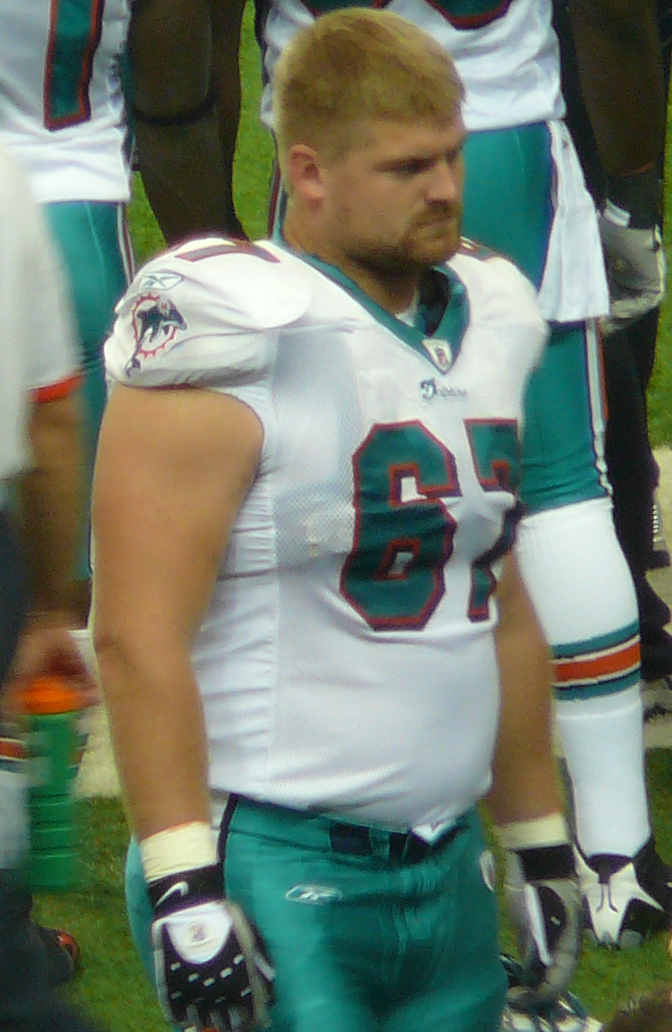 If used somewhere other than Wikipedia, Nelson, by name.